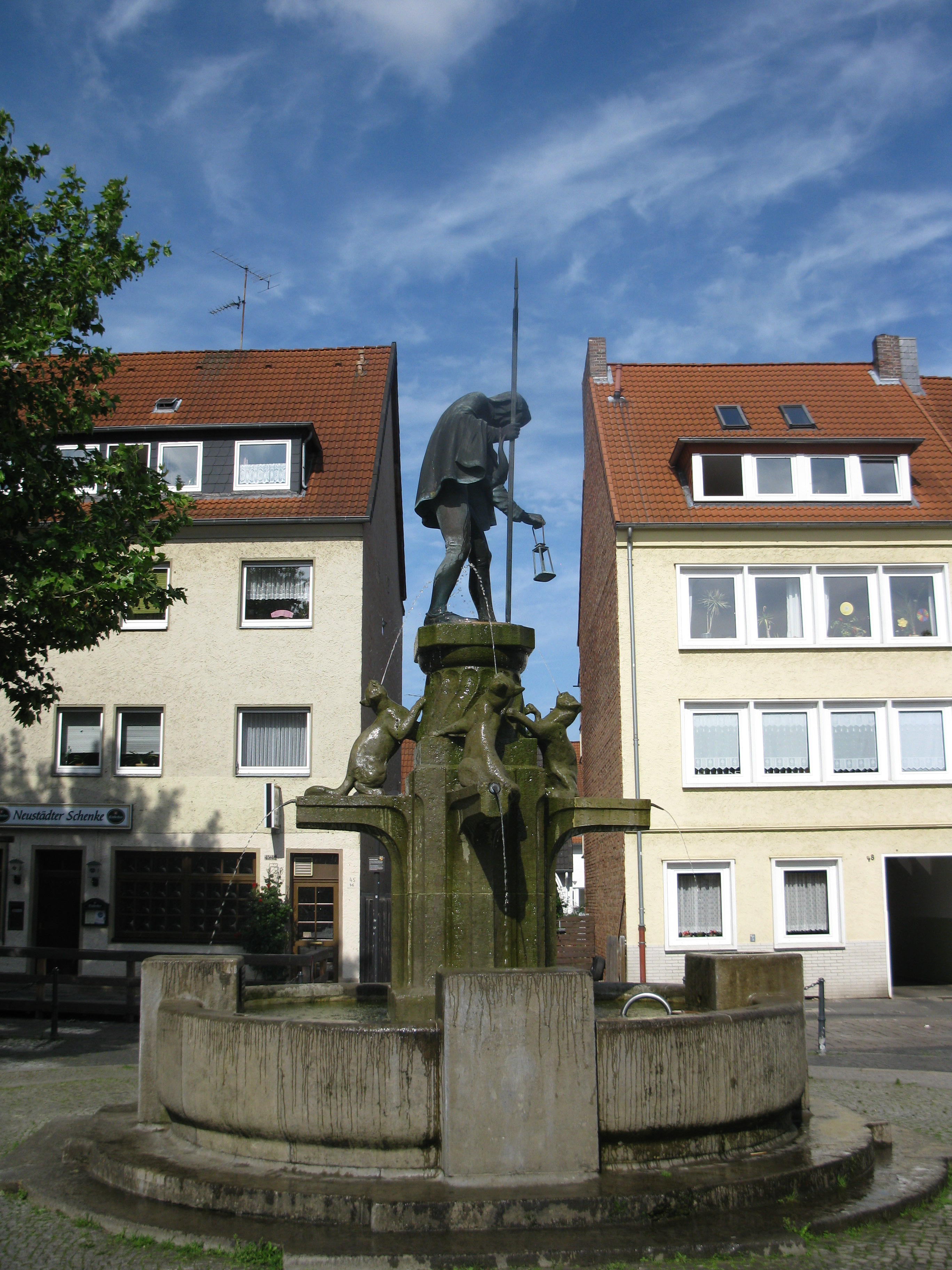 Cats' Fountain, Neustädter Markt, Hildesheim